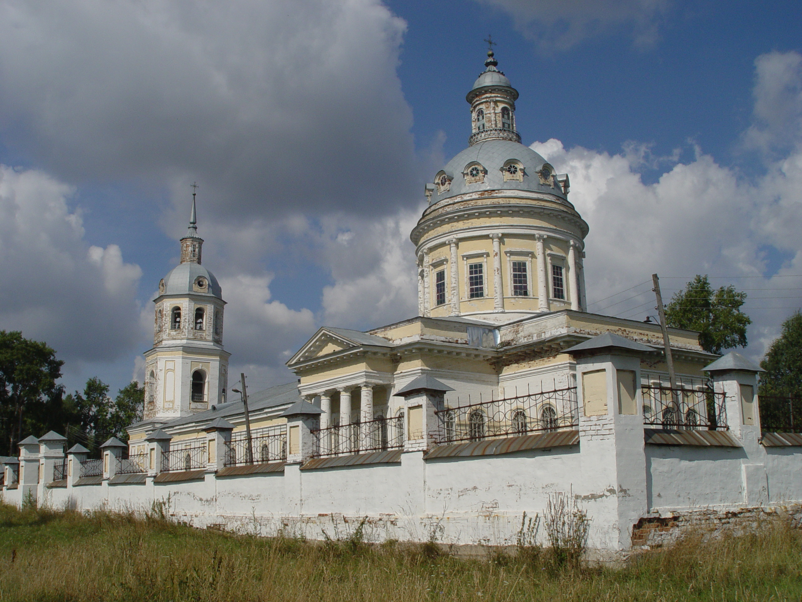 The Church of the ascension in Karinka, Kirov region, Russia